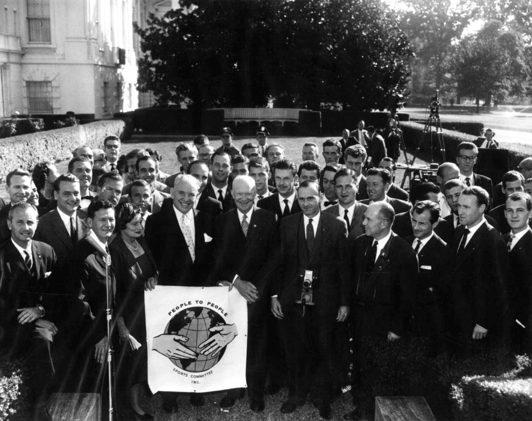 Eisenhower receives members of People to People committee in Rose Garden